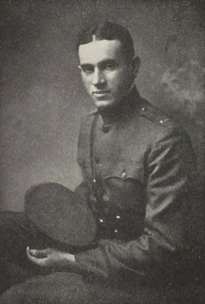 Michael Joseph Hayes in Army Uniform